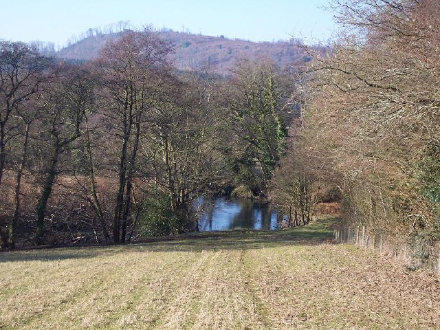 Afon Rhymni, Newport. Coed Craig Ruperra and the Afon Rhymni from the Marches Way west of Newport. The river here forms the boundary between Newport and Caerphilly Borough Councils